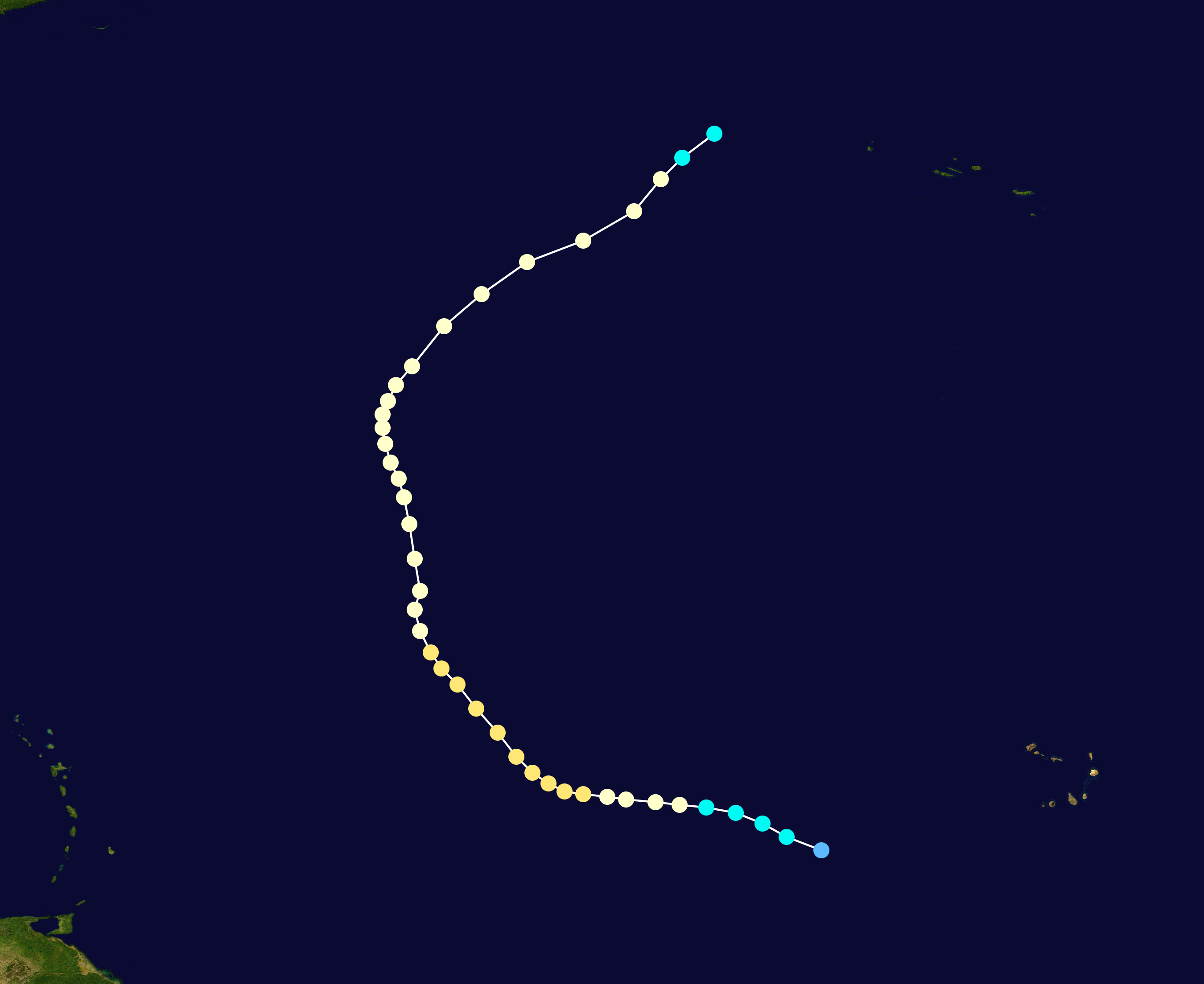 Track map of Hurricane Humberto of the 1995 Atlantic hurricane season. The points show the location of the storm at 6-hour intervals. The colour represents the storm's maximum sustained wind speeds as classified in the Saffir–Simpson scale (see below), and the shape of the data points represent the nature of the storm, according to the legend below. Saffir–Simpson scale Tropical depression≤38 mph≤62 km/h Category 3111–129 mph178–208 km/h Tropical storm39–73 mph63–118 km/h Category 4130–156 mph209–251 km/h Category 174–95 mph119–153 km/h Category 5≥157 mph≥252 km/h Category 296–110 mph154–177 km/h Unknown Storm type Tropical cyclone Subtropical cyclone Extratropical cyclone / Remnant low / Tropical disturbance / Monsoon depression